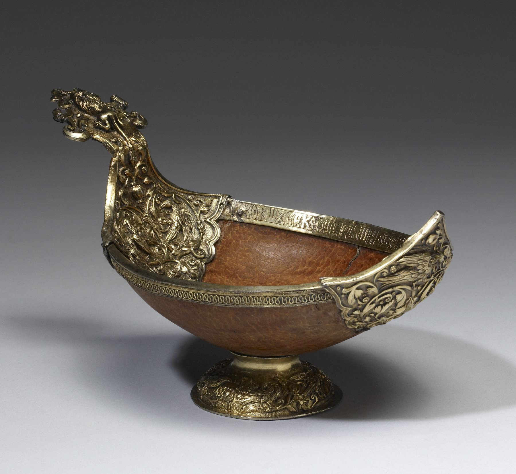 Such large cups, known in Russian as a korchik, were used for drinking wine and mead in wealthy households. Unusually, this one belonged to a woman.